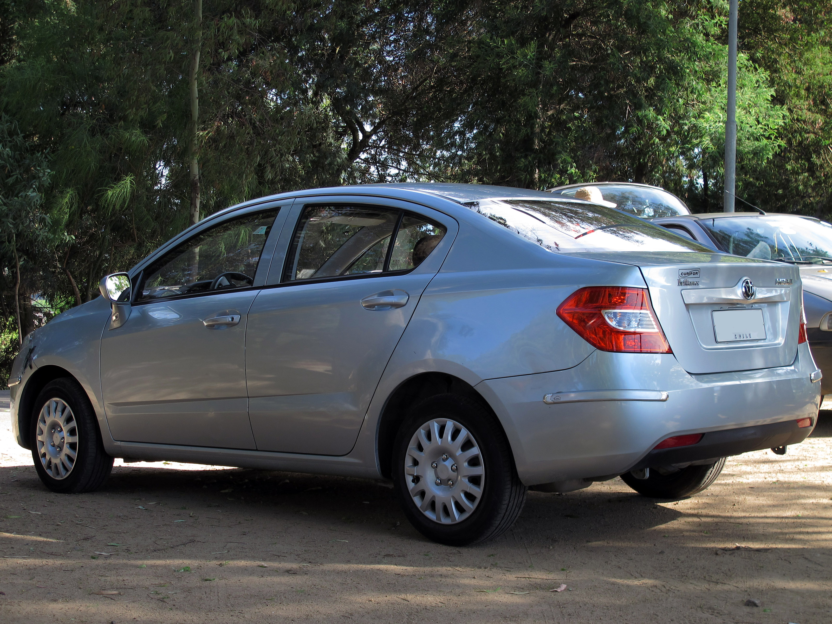 Brilliance H230 1.5 Comfortable 2015